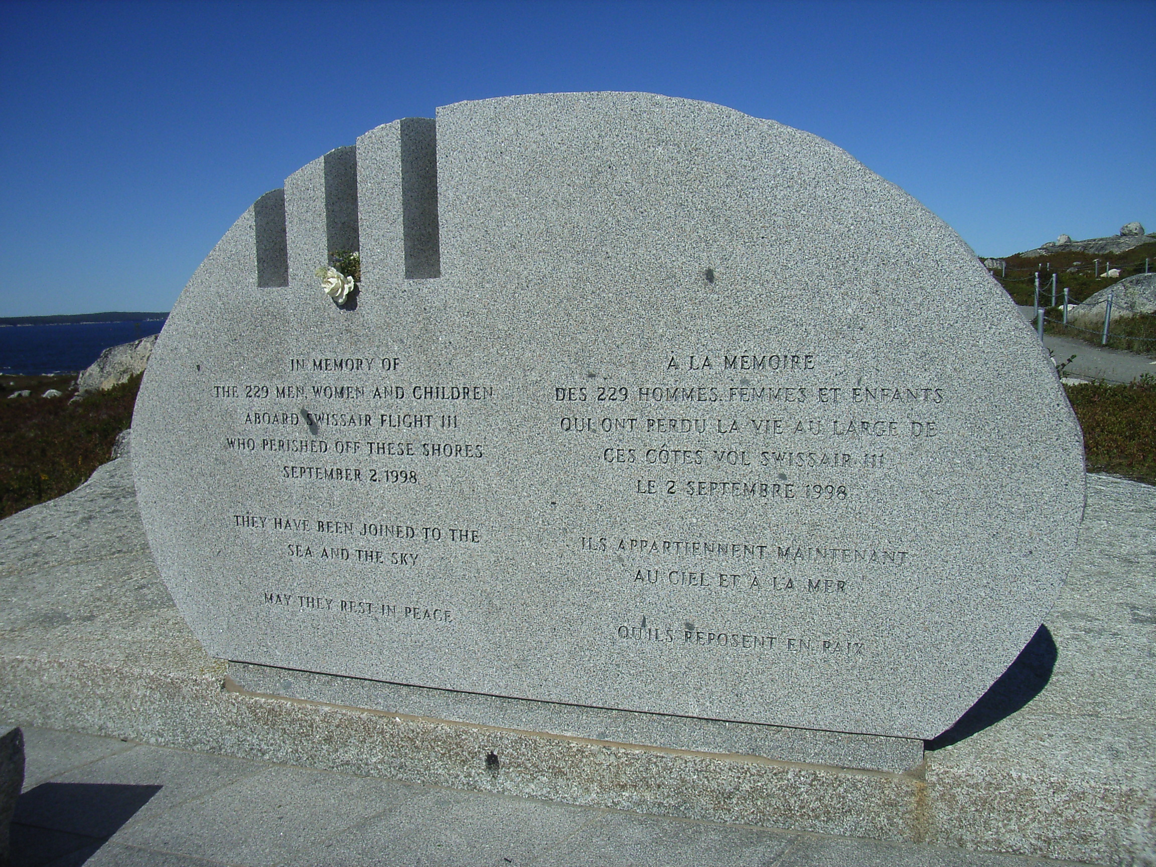 Swissair Flight 111 Memorial, Peggys Cove, Nova Scotia